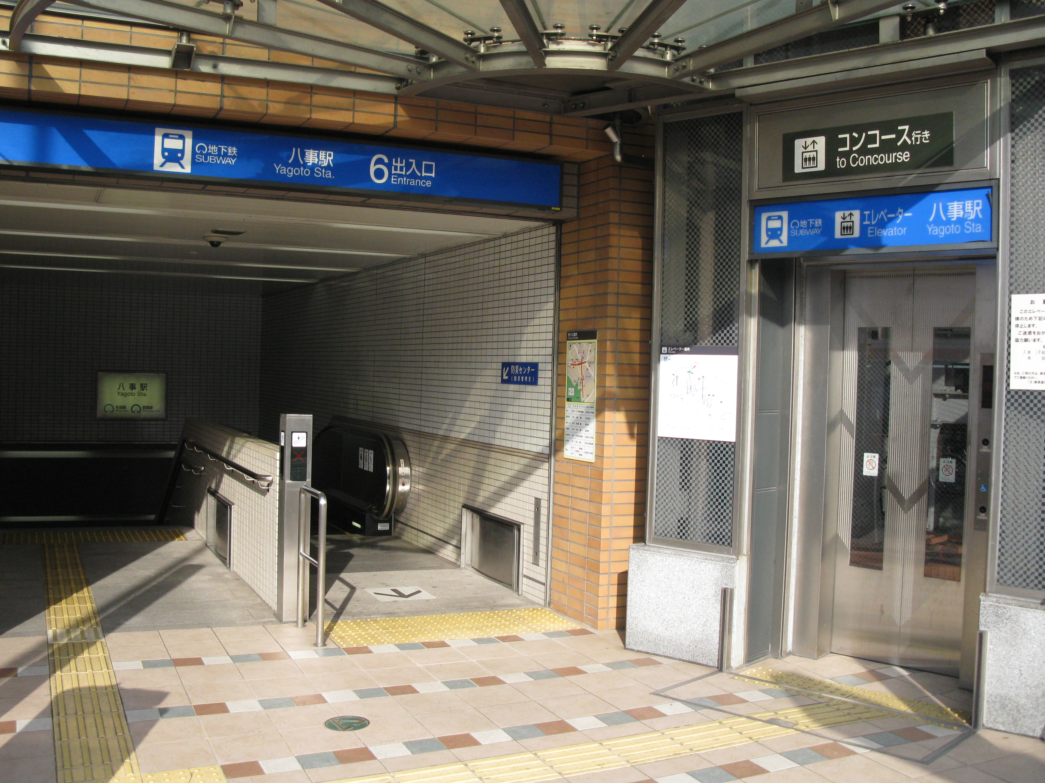 Yagoto Station no.6 entrance (Nagoya Municipal Subway Meijō Line, Tsurumai Line)